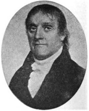 Silas Wood, Congressman from New York